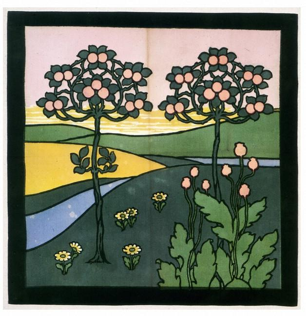 Cushion cover panel, 1904, Silver Studio V&A Museum no. CIRC.675-1966 Techniques - Roller-printed cotton Place - Kent, England Dimensions - Height 60.3 cm Width 61 cm Object Type - This printed cotton panel for a cushion cover would have been a fashionable yet moderately inexpensive furnishing. Liberty's sold a range of furnishings with strong contemporary Arts and Crafts styles, which could transform simple homes into very fashionable interiors with a minimum of expense. This cushion cover is one of a series that were sold at the shop between the late 1890s and the First World War. Materials & Making - It is probable that this panel was printed at the Swaisland Print Works at Crayford, London, which were owned at the time by the importers and textile manufacturers G.P &.J. Baker. Design & Designing - The design was drawn by one of the designers working in the Silver Studio, which was founded in 1880 in Brook Green, London, by Arthur Silver (1853-1896) but later moved to Haarlem Road in nearby Hammersmith. Founded for the production of entire interior schemes as well as for repeating designs for fabrics, wallpapers and floor coverings, the Silver Studio also sold patterns for plasterwork, dress fabrics, stencils, metalwork, furniture, book jackets, advertisements and trade cards. The studio had a wide range of clients, including Libertys. This cushion cover is reminiscent of the work of C.F.A. Voysey (1857-1941), one of the most popular of all British Arts and Crafts designers, and follows the studio's practice of working in the style of popular contemporary designers.